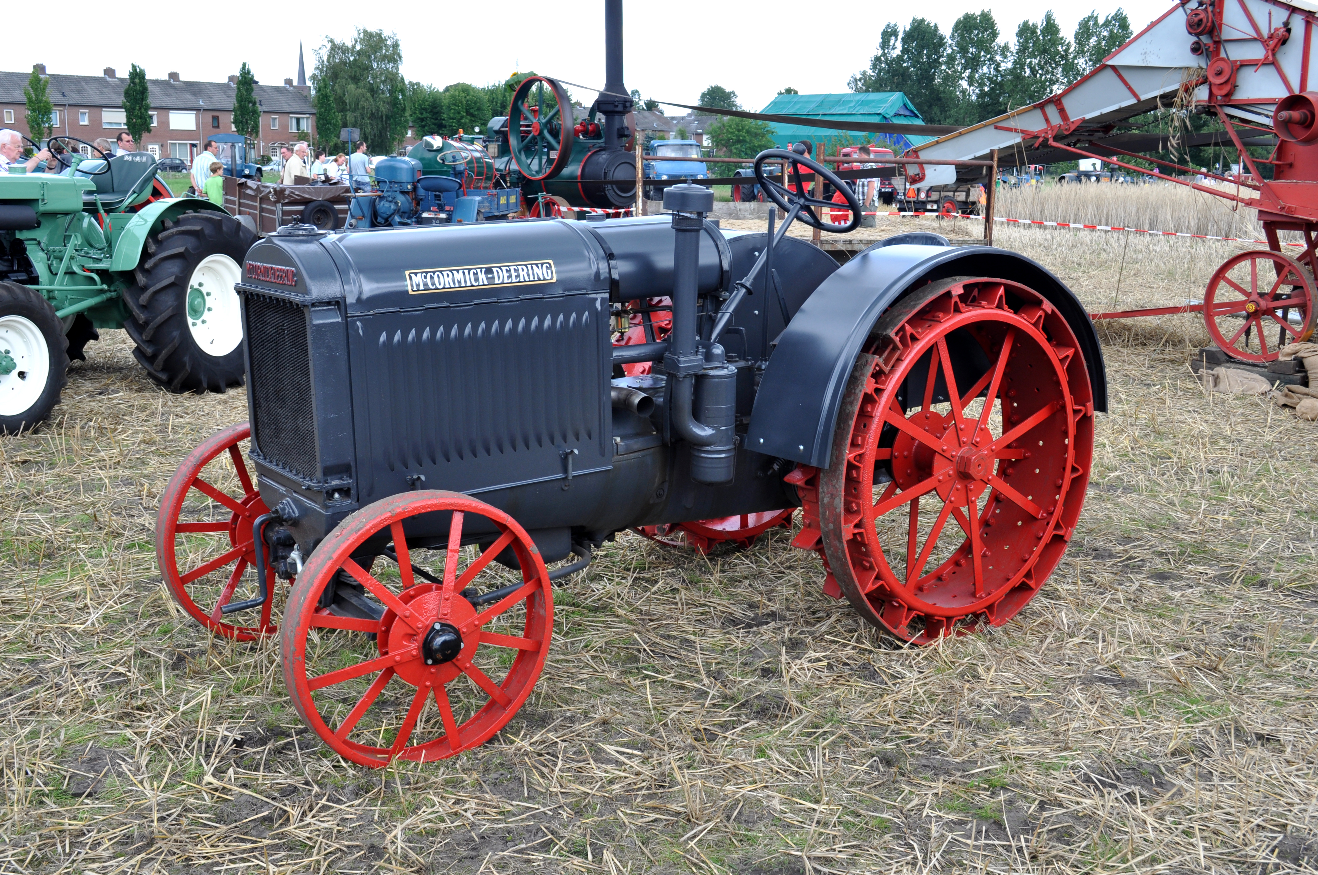 A McCormick Deering tractor